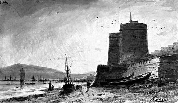 Baku